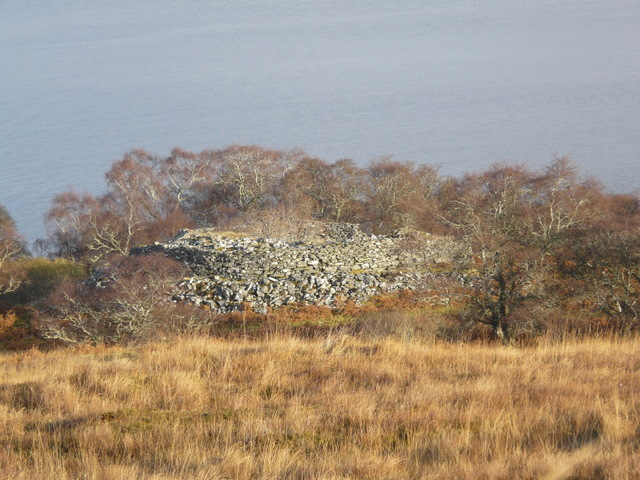 Sallachy Broch